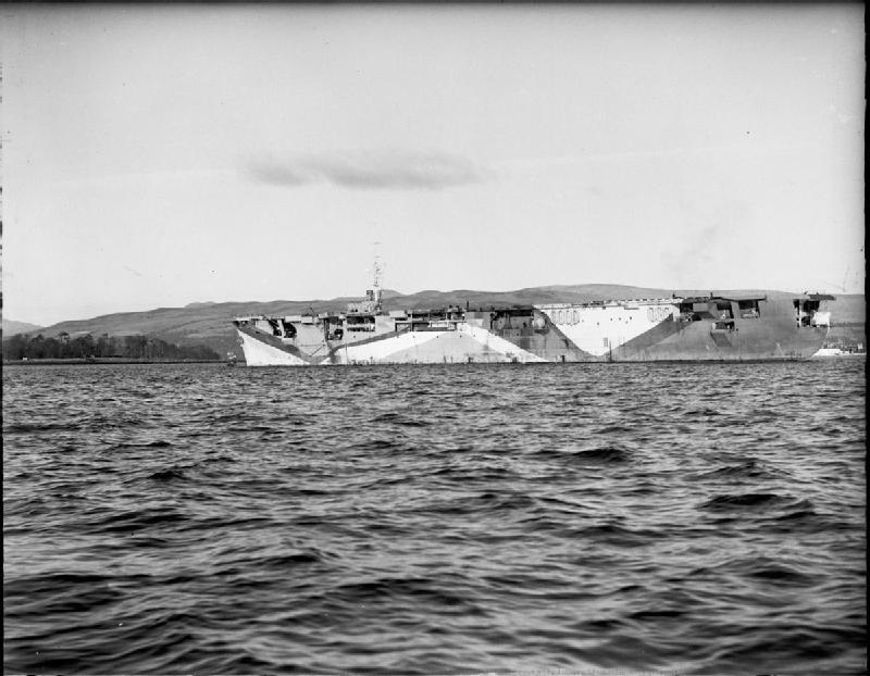 The Battle of the Atlantic 1939-1945 British Forces: HMS ACTIVITY, an escort carrier built in 1942, photographed at anchor in the Clyde.